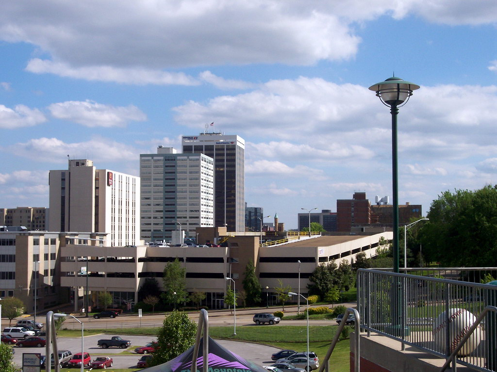 Downtown of Chattanooga, Tennessee